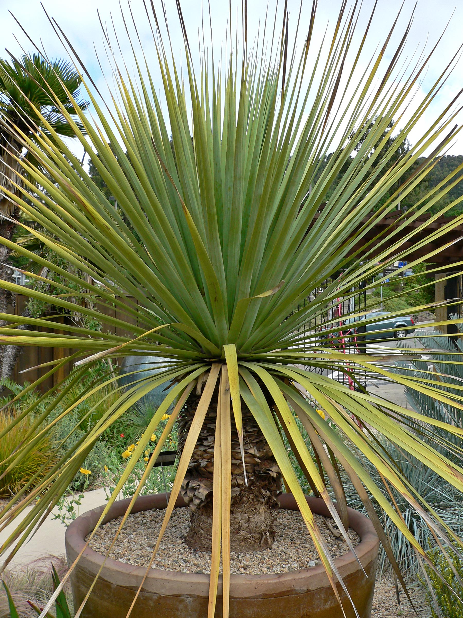 Photo of Nolina nelsonii at the University of California Botanical Garden